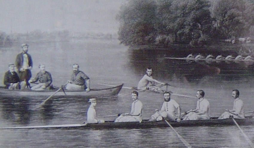 Picture of LRC rowers including AA Casamajor, F Playford, H H Playford, J Paine and J Nottidge